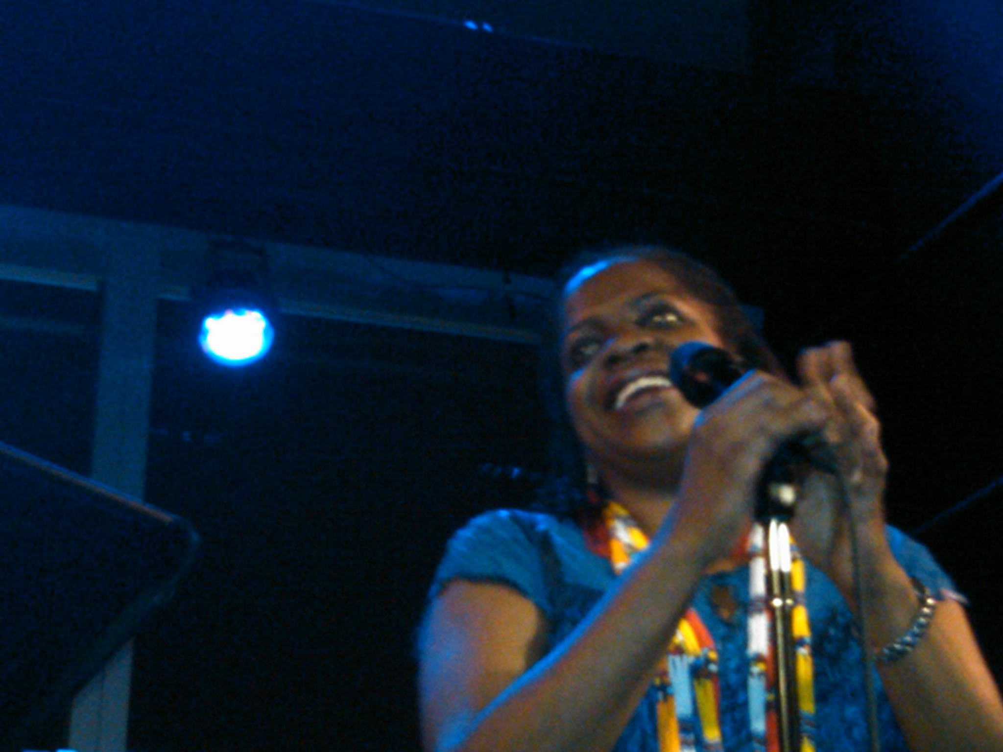 This is a photo of the jazz singer Carla Cook in performance at Dizzy's Club Coca-Cola in New York, NY on March 30, 2011.